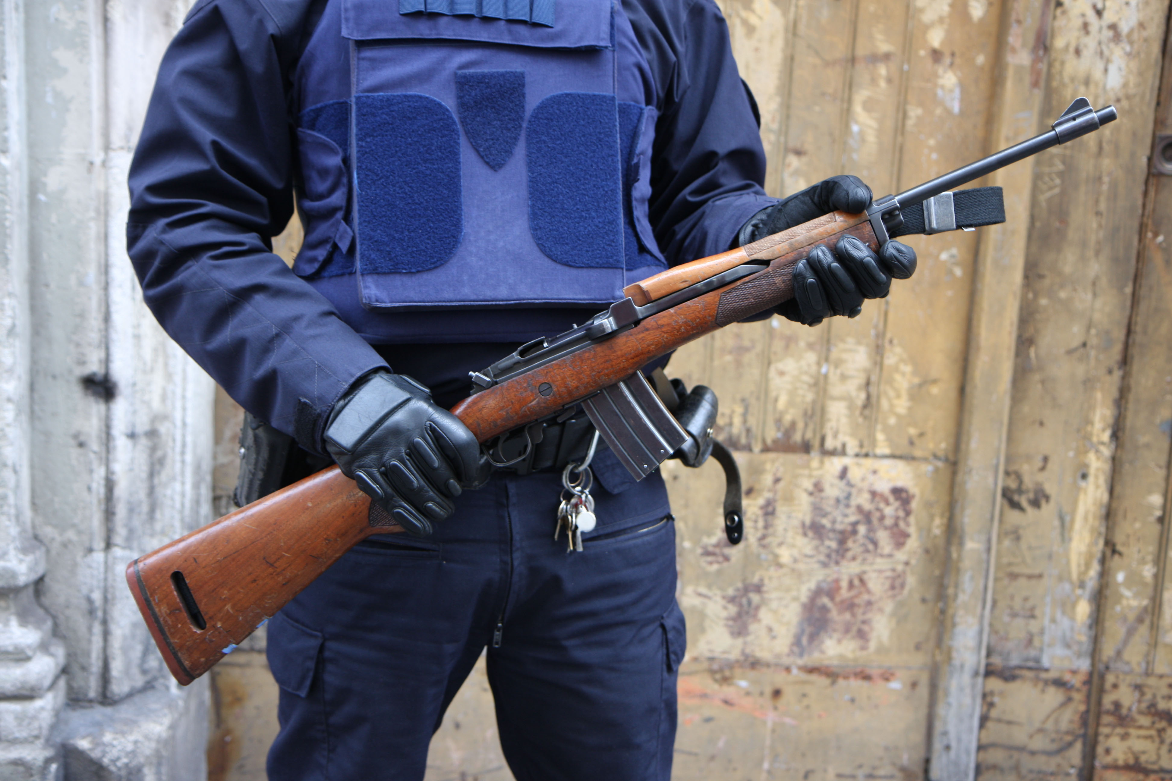 French CRS police officer with Ruger AC-556 (AMD) carbine.